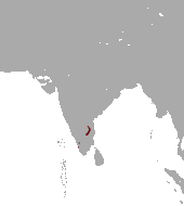 Bare-bellied Hedgehog (Paraechinus nudiventris) range